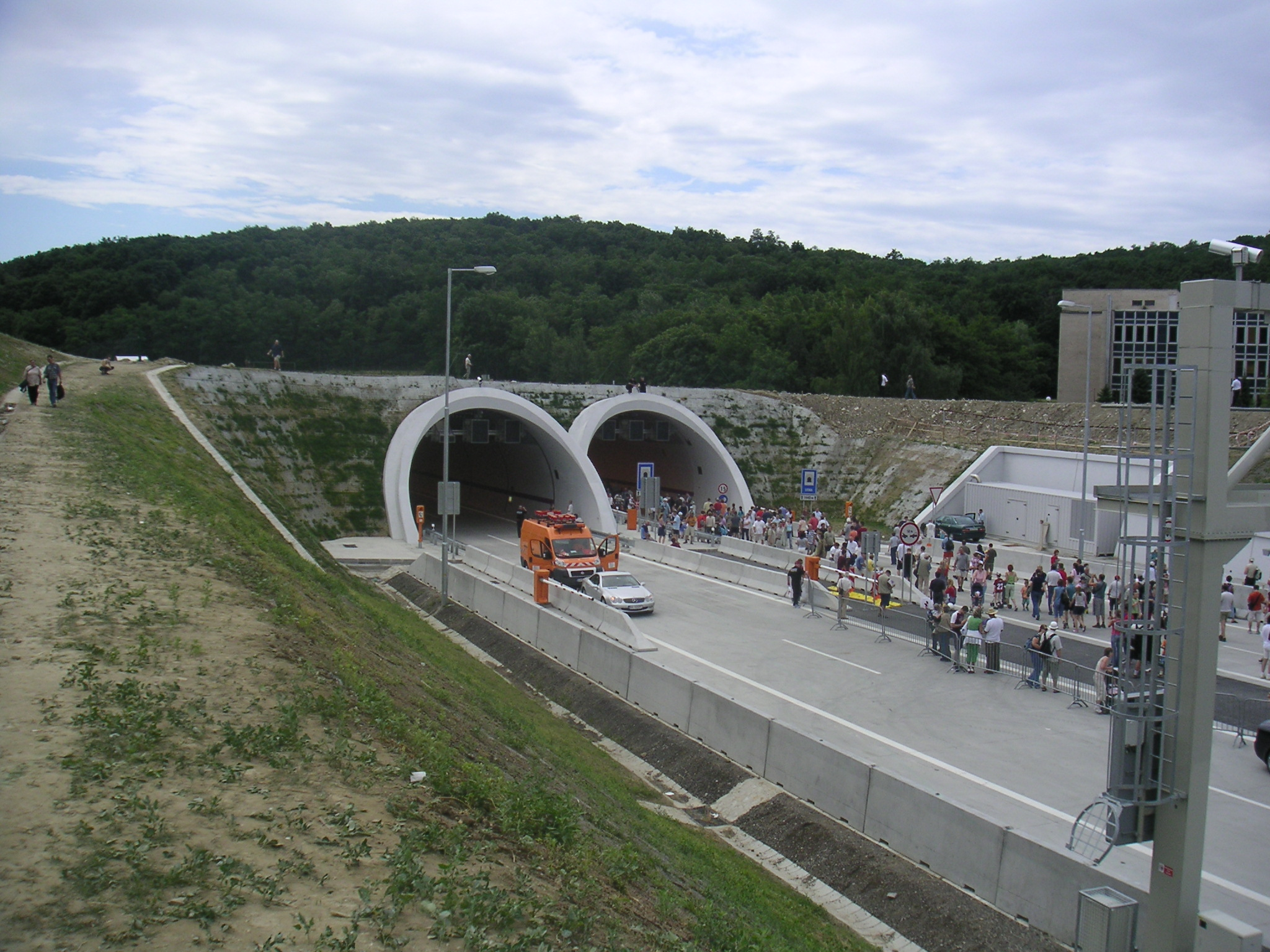 Sitina tunnel in Bratislava, Slovakia, northern entrance. Taken at the opening day on 23 June 2007